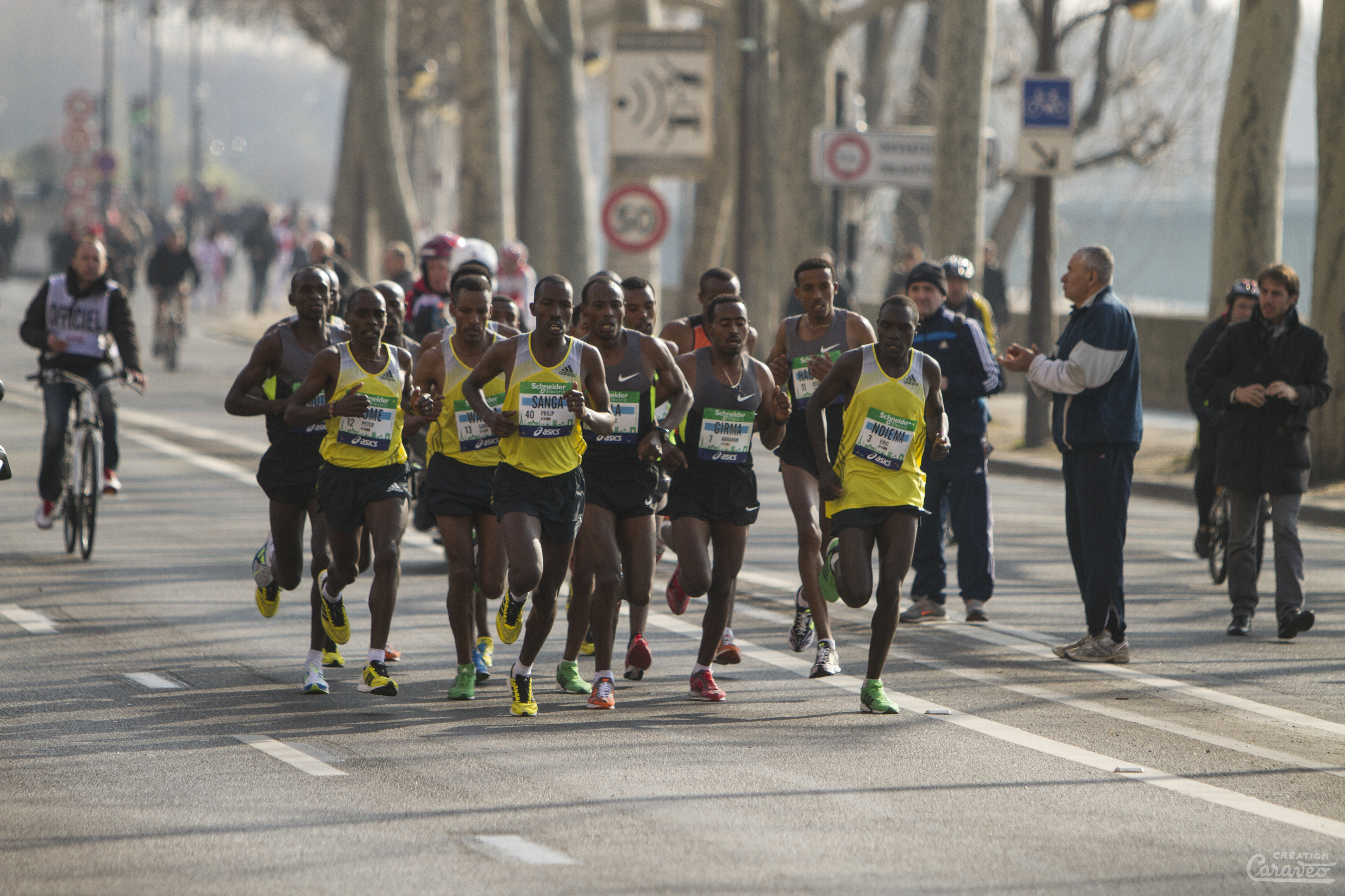 2013 Paris Marathon.